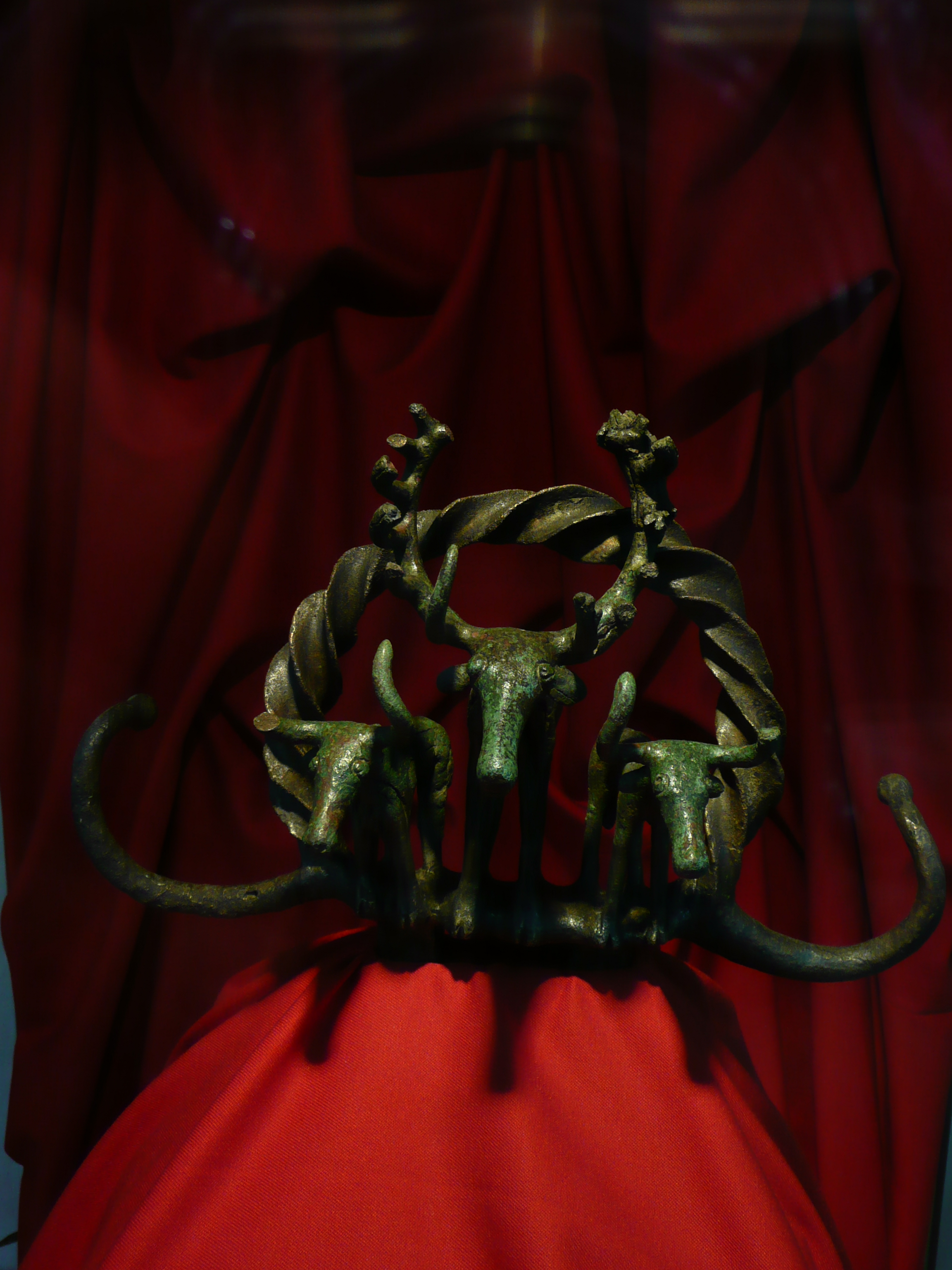 The Museum of Anatolian Civilizations is situated in Ankara, Turkey. It is one of the leading museums in the world for its unique collection of the ancient history of Anatolia.